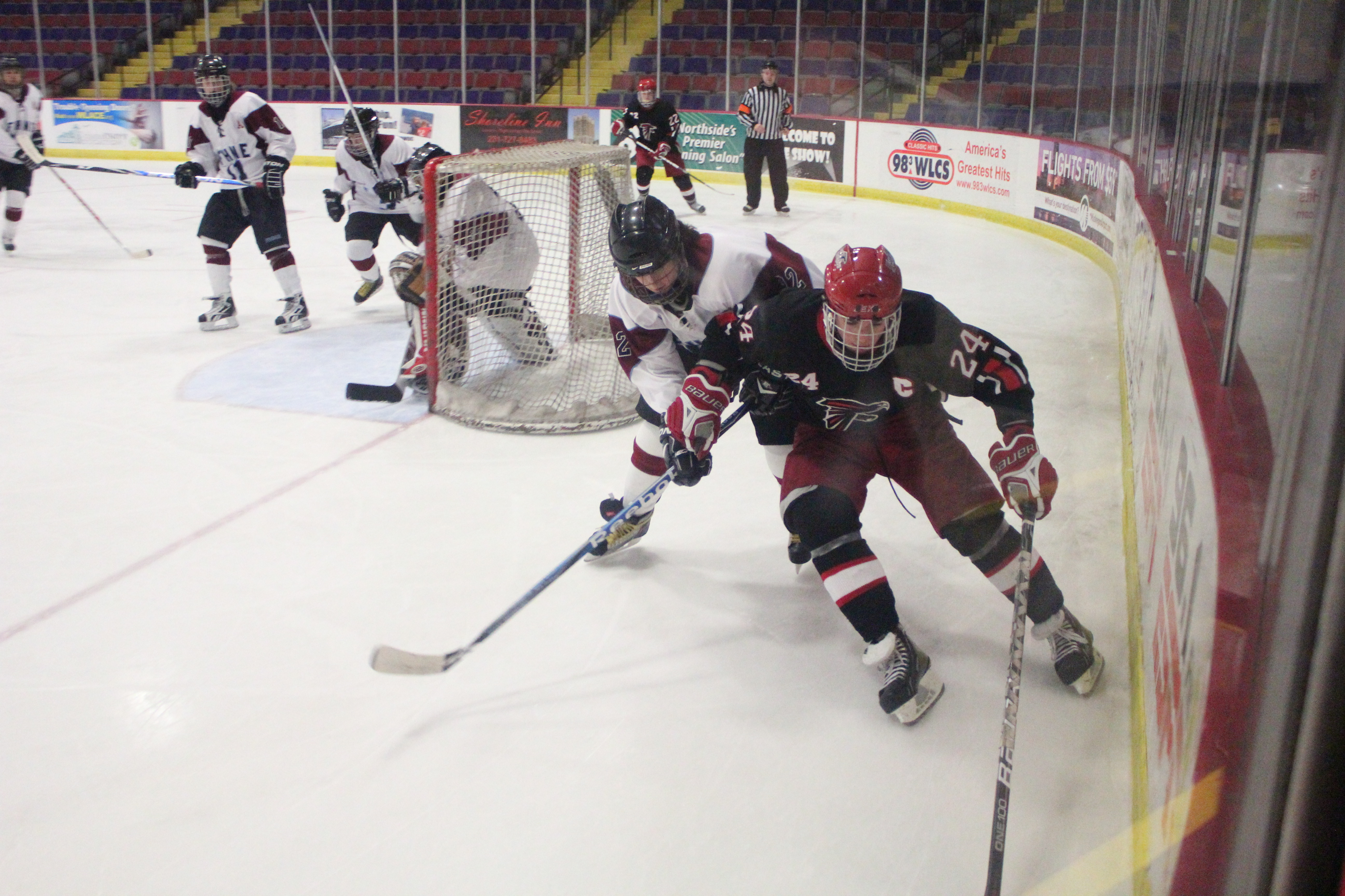 Jimmy Davis of East Kentwood fends off a FHNE defender. East Kentwood vs Forest Hills Northern/Eastern - 2010/2011 LC Walker Arena, Muskegon, Michigan Images by